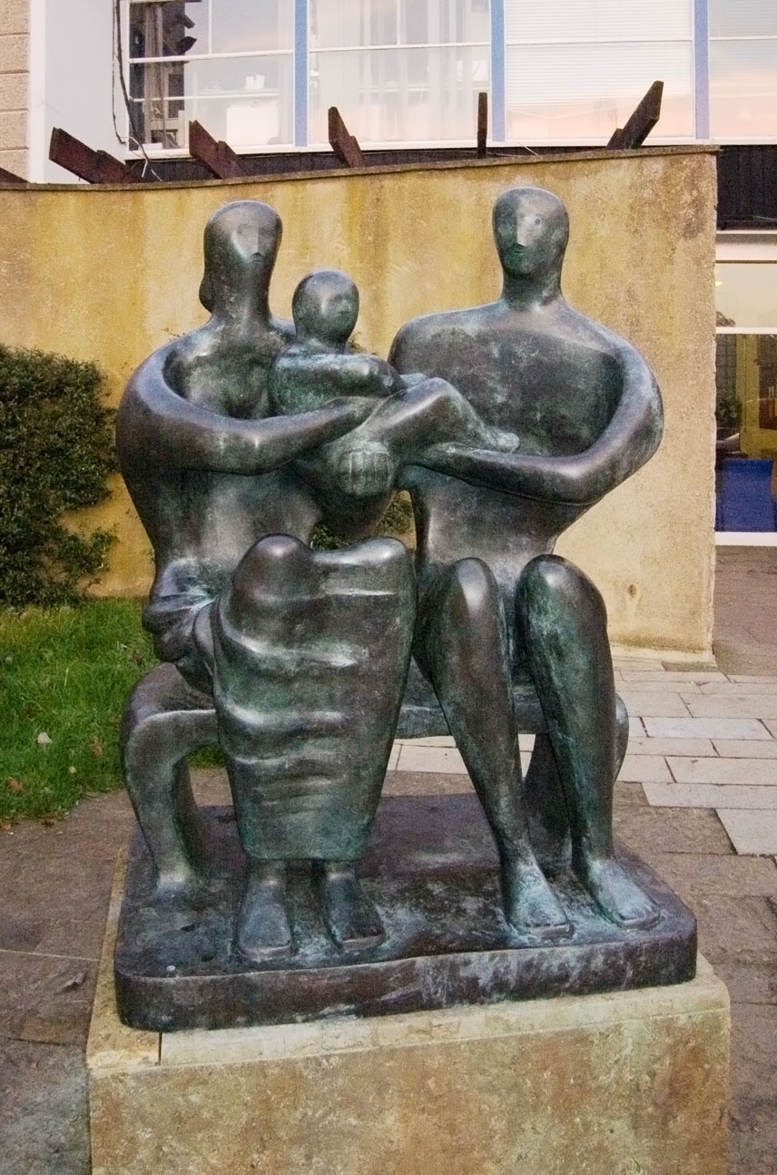 Henry Moore, Family Group (1950) bronze, sited at the entrance to Barclay School, Stevenage, Hertfordshire, England. This statue was Moore's first large scale commission for a bronze and his first commission following the Second World war. It was originaly intended for Impington Village College in Cambridge and the Family Group subject fits in with the village college philosophy of life-long education. However, after Moore had designed the maquette, Impington cancel the sculpture due to lack of funds. The project was revived a few years later when the new town of Stevenage was being designed. The Chief Education Officer, John Newsom, persuaded the coucil to allocate funds for public art works at each of the new schools being built, allowing Moore to complete Family Group for the Barclay School in 1950.